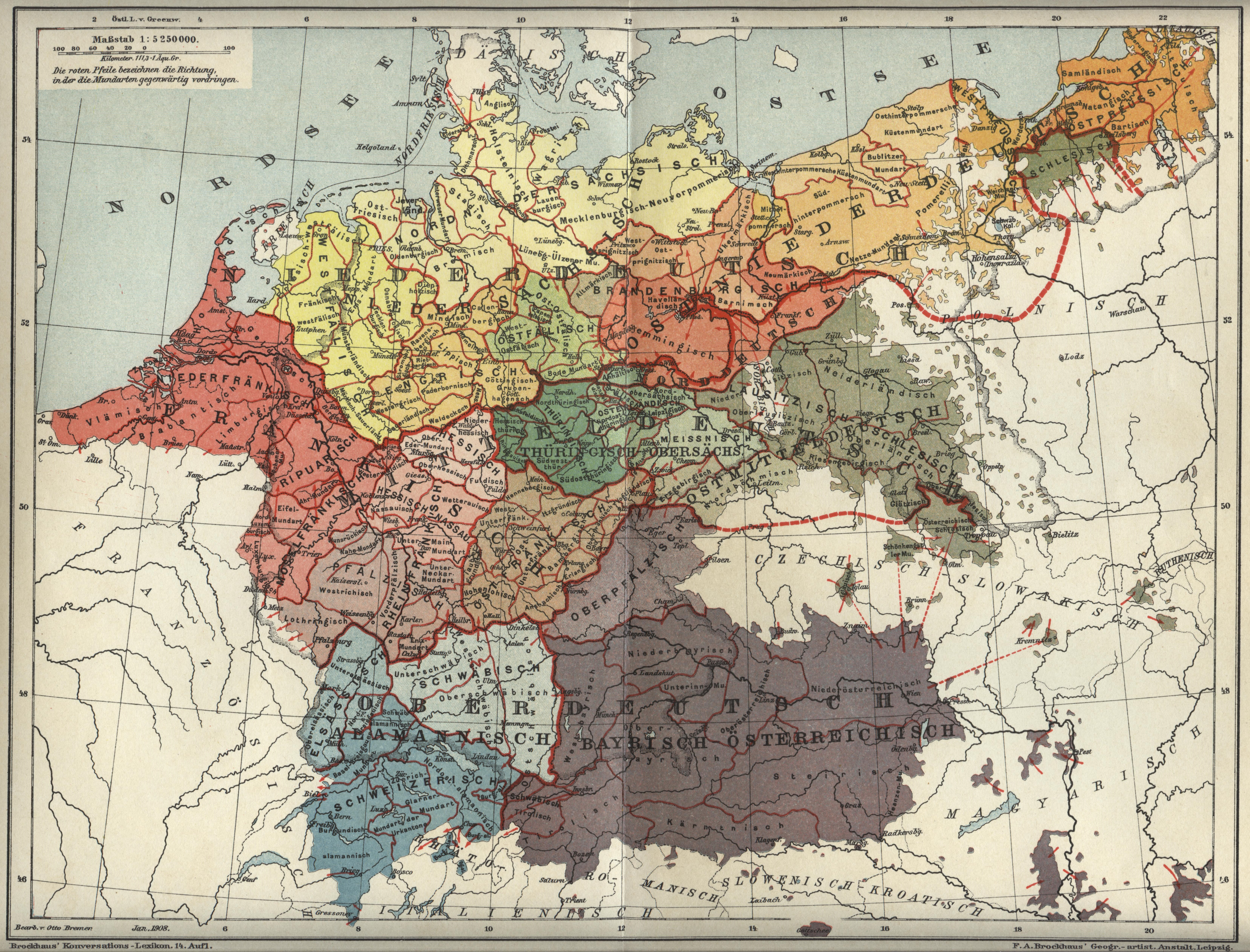 Map of the German Dialects. Brockhaus (German encyclopedia), Leipzig 1908.